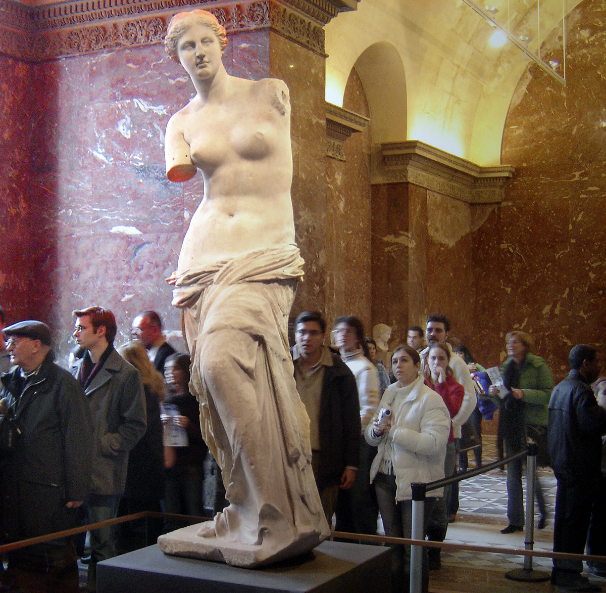 Venus of Milo, Louvre, Paris